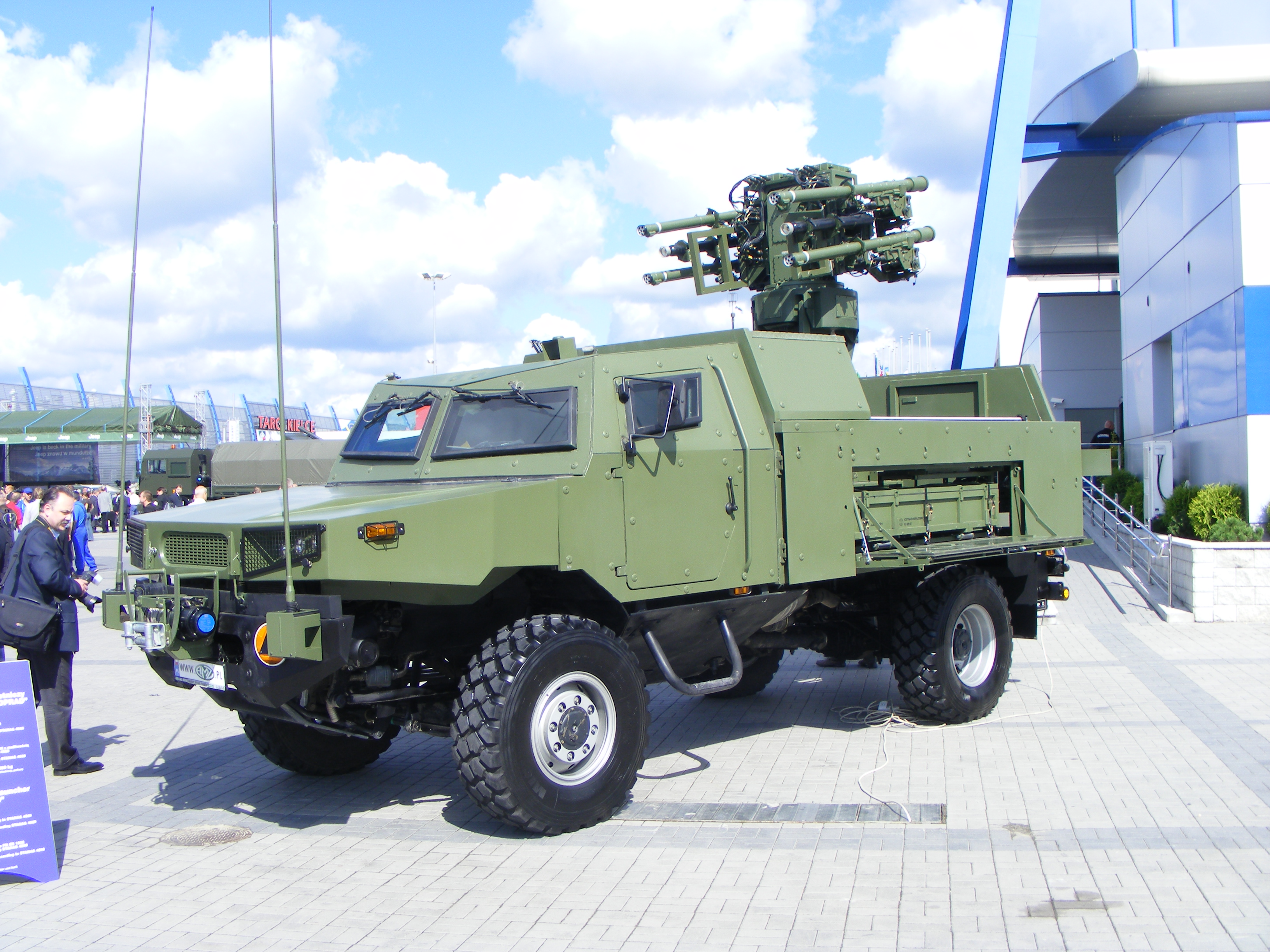 Polish self-propelled anti-aircraft system "Poprad" at MSPO 2008.